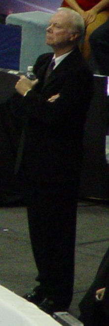 Figure skater Michelle Kwan sits in the kiss and cry area at the 2002 U.S. Figure Skating Championships. Other people in the photo include Kwan's father, who was acting as her coach at this event; Frank Carroll, coach of the next competitor; two ABC Sports TV camera operators; and a volunteer holding a bag of gifts for Kwan collected by ice sweepers. This is a cropped version of Image:2002-kissandcry.jpg to show only Frank Carroll.